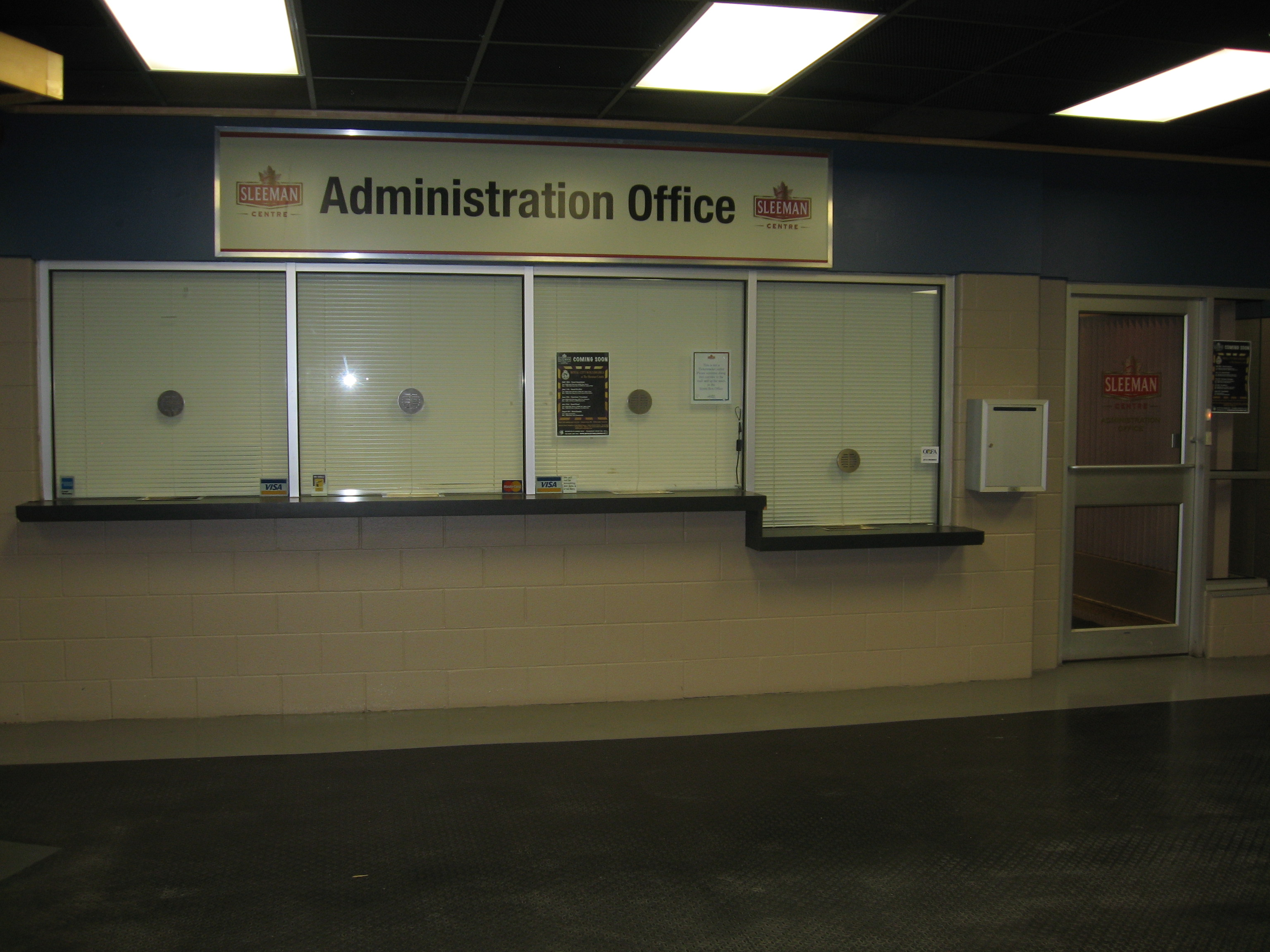 A picture of the Sleeman Centre Box office.